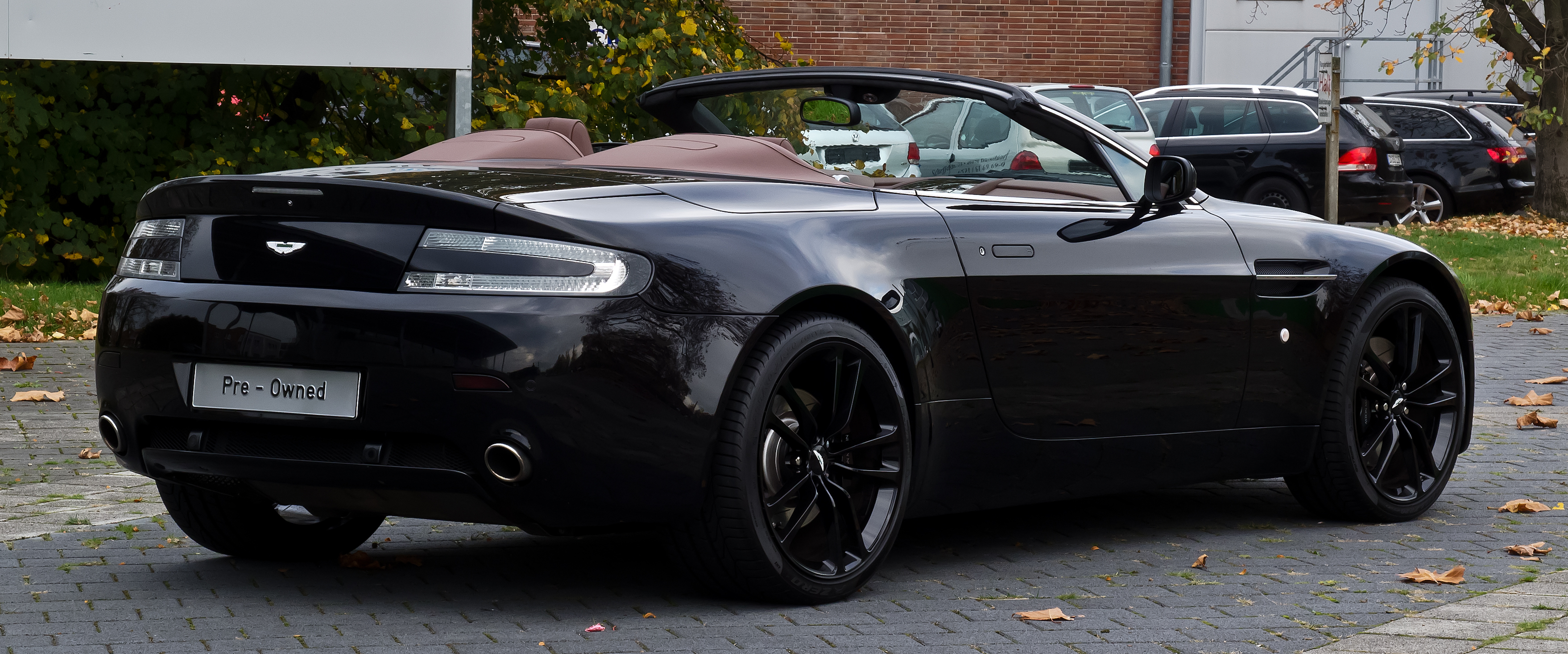 Aston Martin V8 Vantage Roadster (Facelift)